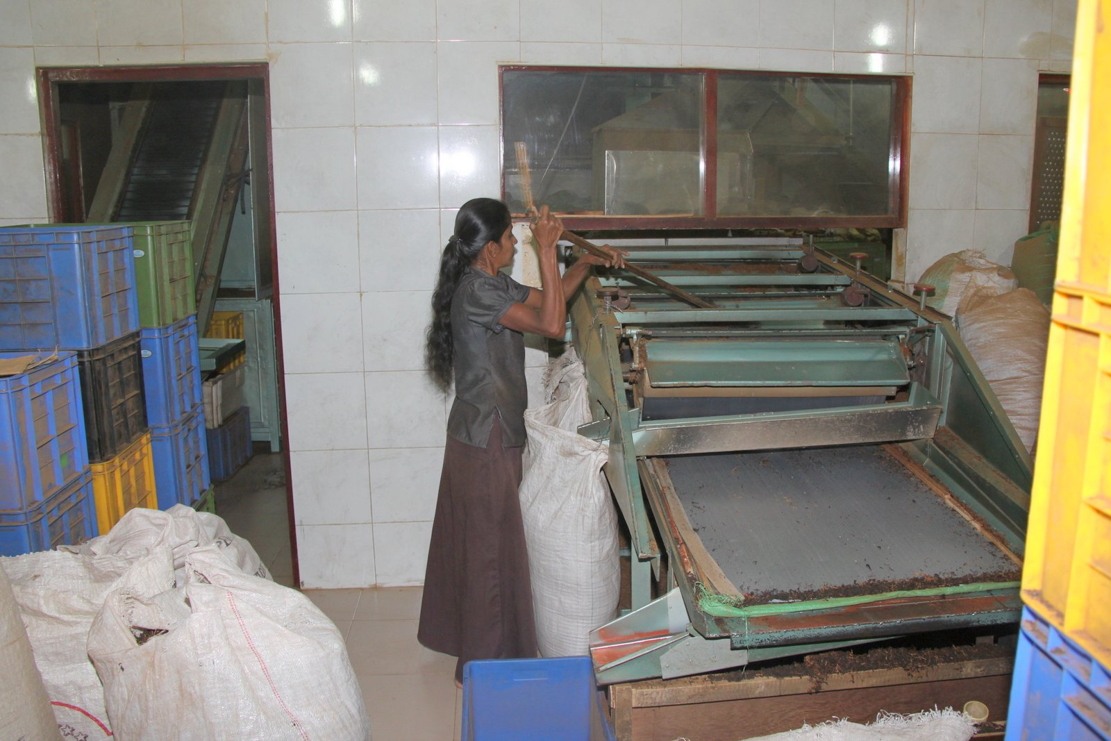 Women with long black hair at work in tea factory Sri Lanka